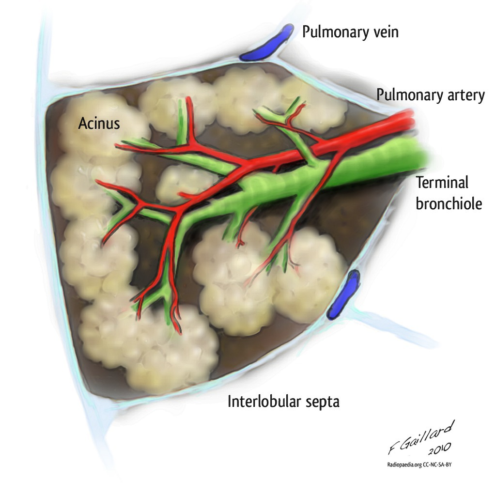 Illustration of a secondary pulmonary lobule showing its enclosure by surrounding interlobular septa. The lobule is supplied by a terminal bronchiole that branches into the respiratory bronchioles. The respiratory bronchioles supply the pulmonary acini and are accompanied by pulmonary artery branches.